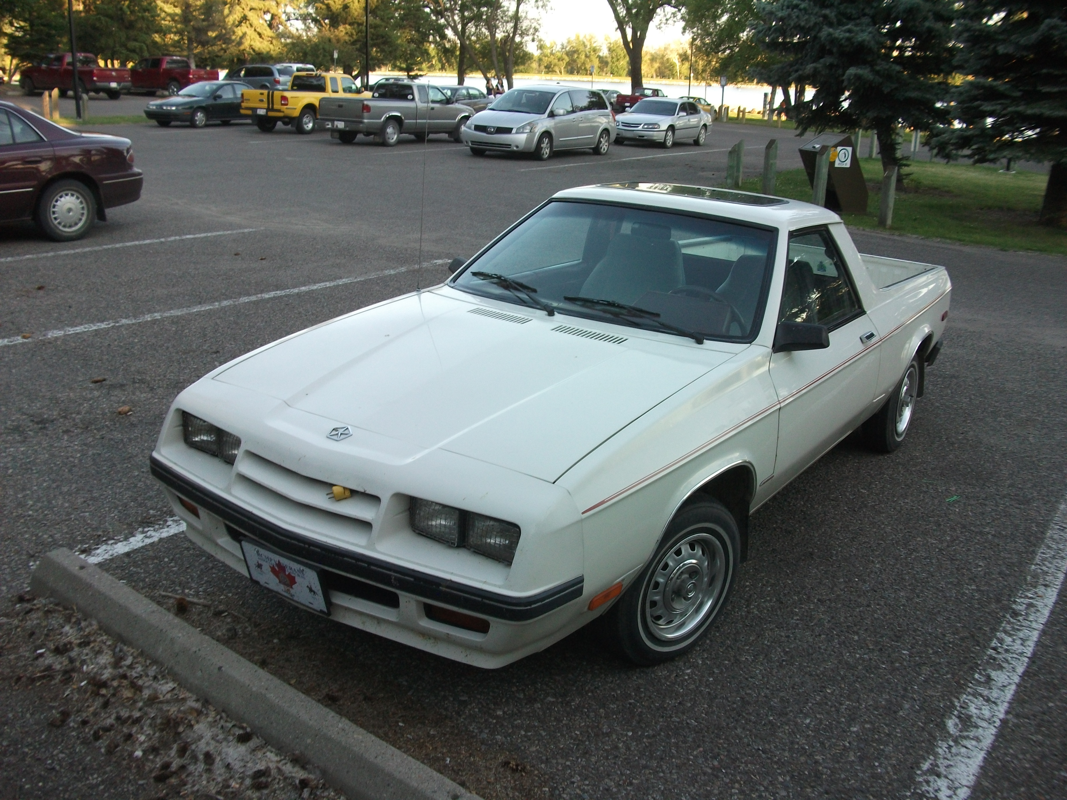 Always nice to see a Dodge Rampage this with the later nose.